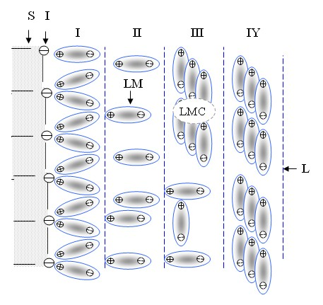 Molecular power 17. Interaction of the molecules of liquid and the solid surface